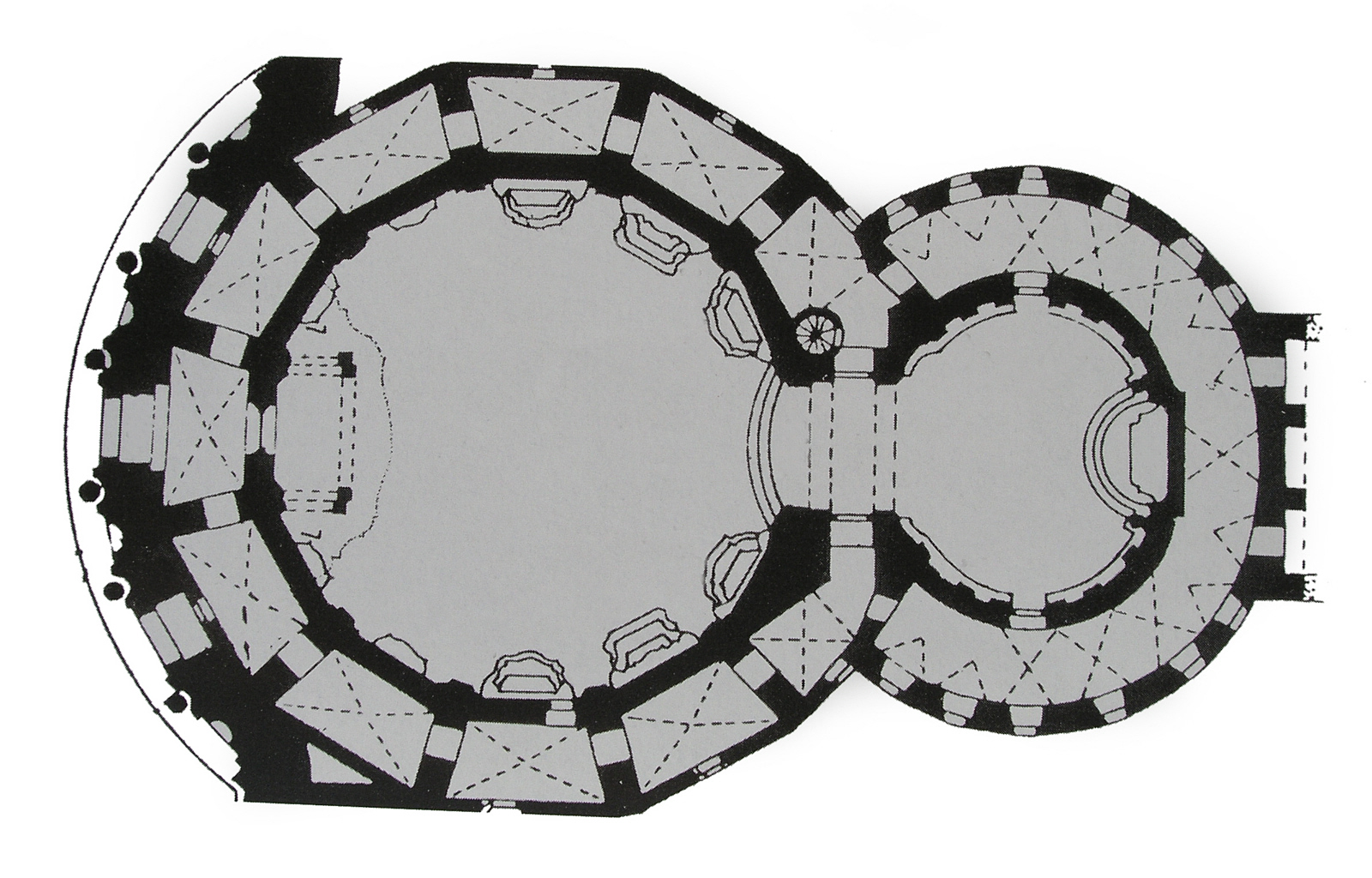 Ground plan of the monastery church of Ettal